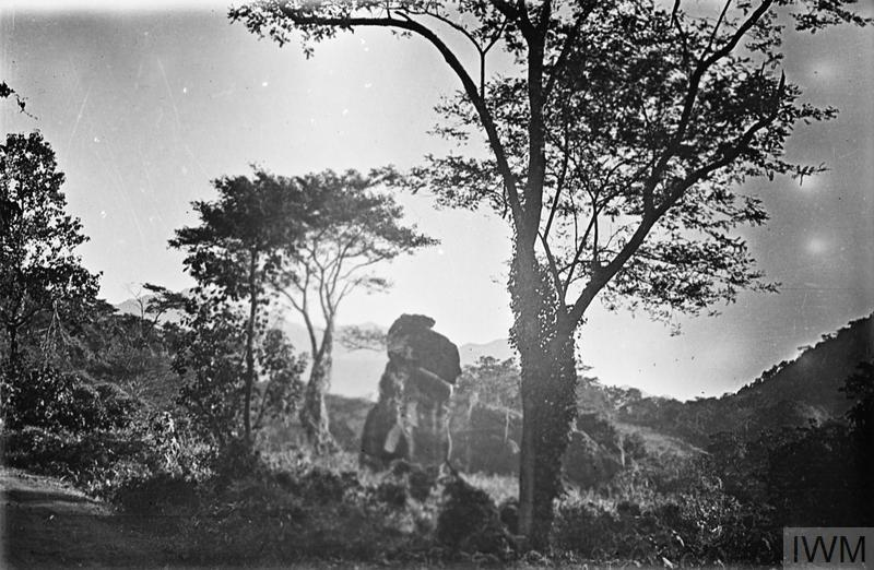 A typical bit of African bush on Mikesse Line to Rufiji River, photographed in late 1917 during the East Africa Campaign.